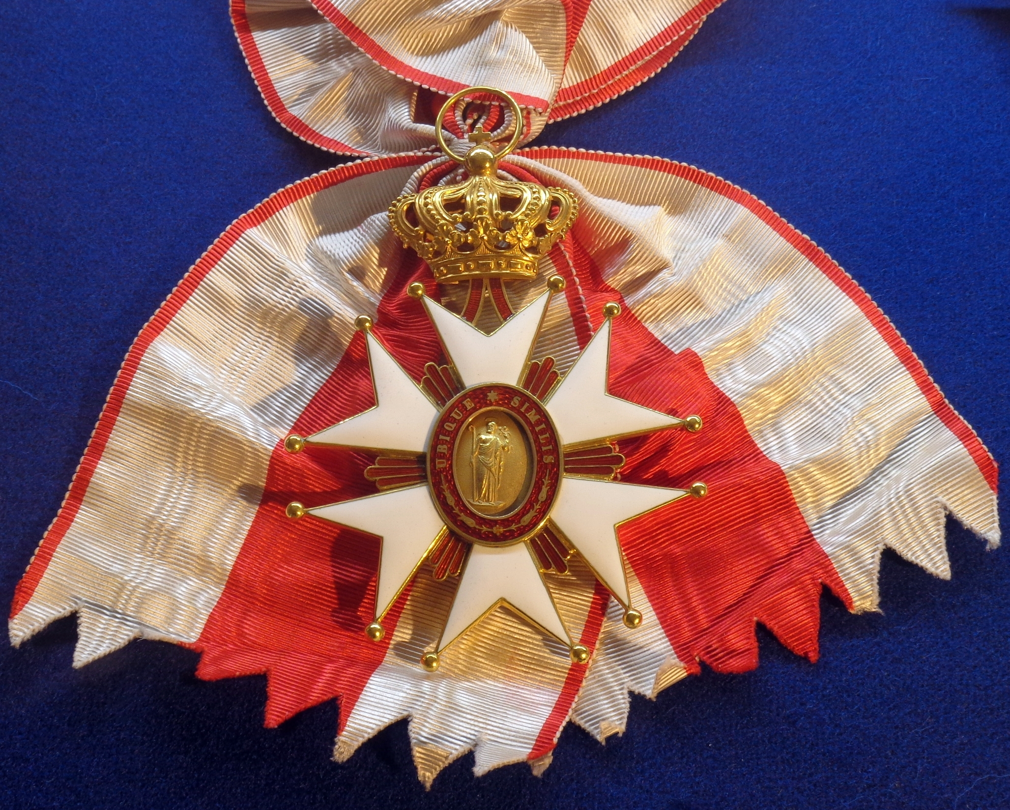 Order of Saint Joseph, badge and sash of Grand Cross. Grand Duchy of Tuscany. The exhibition of the Tallinn Museum of Orders of Knighthood, Estonia.